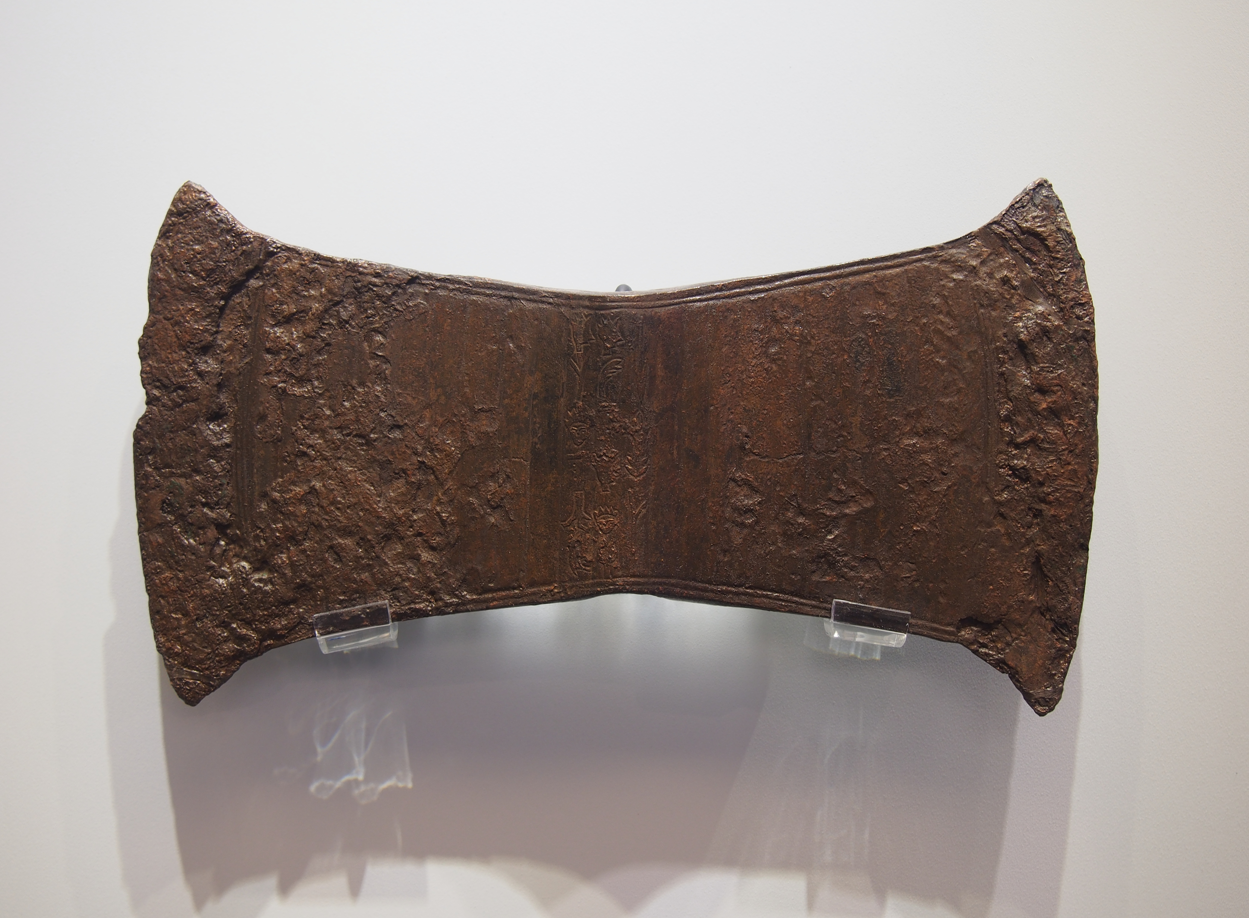 Arkalochori Axe, located in the Archaeological Museum of Heraklio. It dates from 1700-1450 BCE. Its central socket is inscripted. The inscription is arraned in three columns with signs that some resemble those of Linear A and others those of the disk of Faistos.